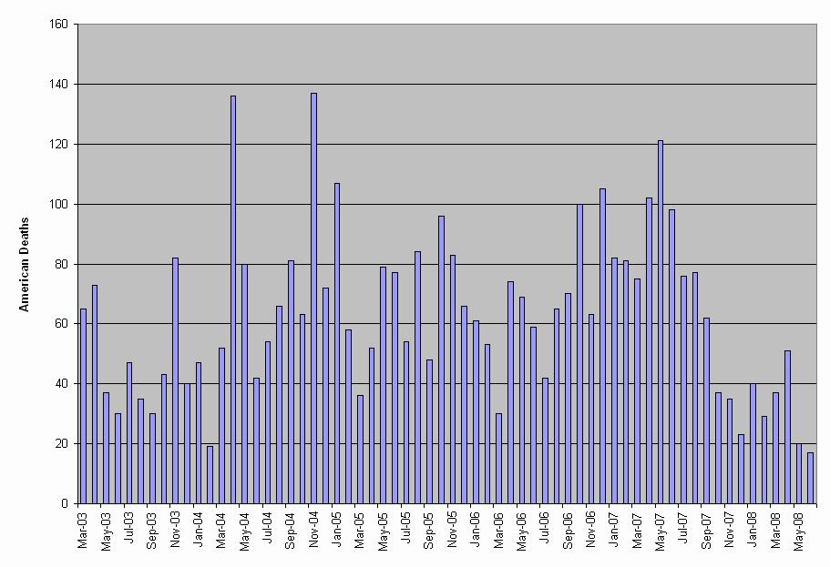 US casualties in Iraq since start of war, from .